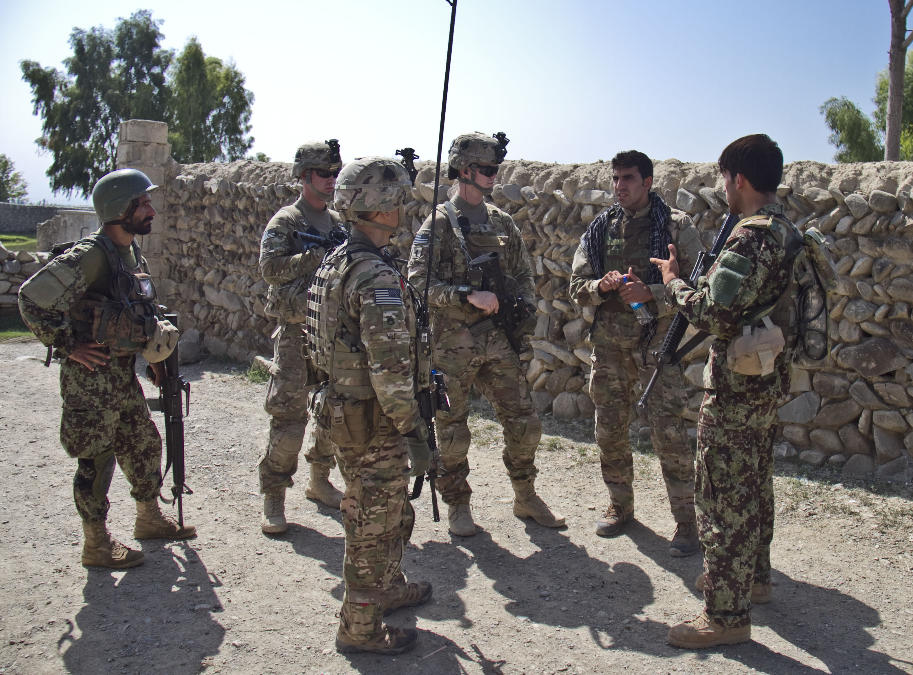 With the assistance of an interpreter Soldiers with Easy Company, 2nd Battalion, 506th Infantry Regiment, 4th Brigade Combat Team, 101st Airborne Division (Air Assault), talk with a member of the Afghan National Army during a mission in the District of Saberi, Afghanistan, on August 21. (U.S. Army photo by Sgt. Jusitn A. Moeller, 4th Brigade Combat Team Public Affairs)